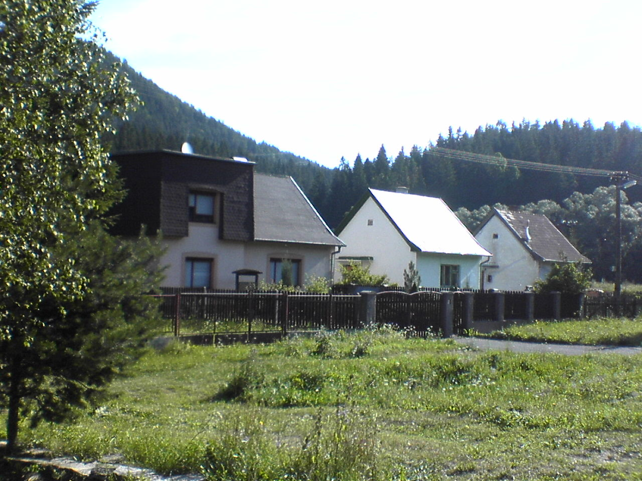 The hamlet of Svarín